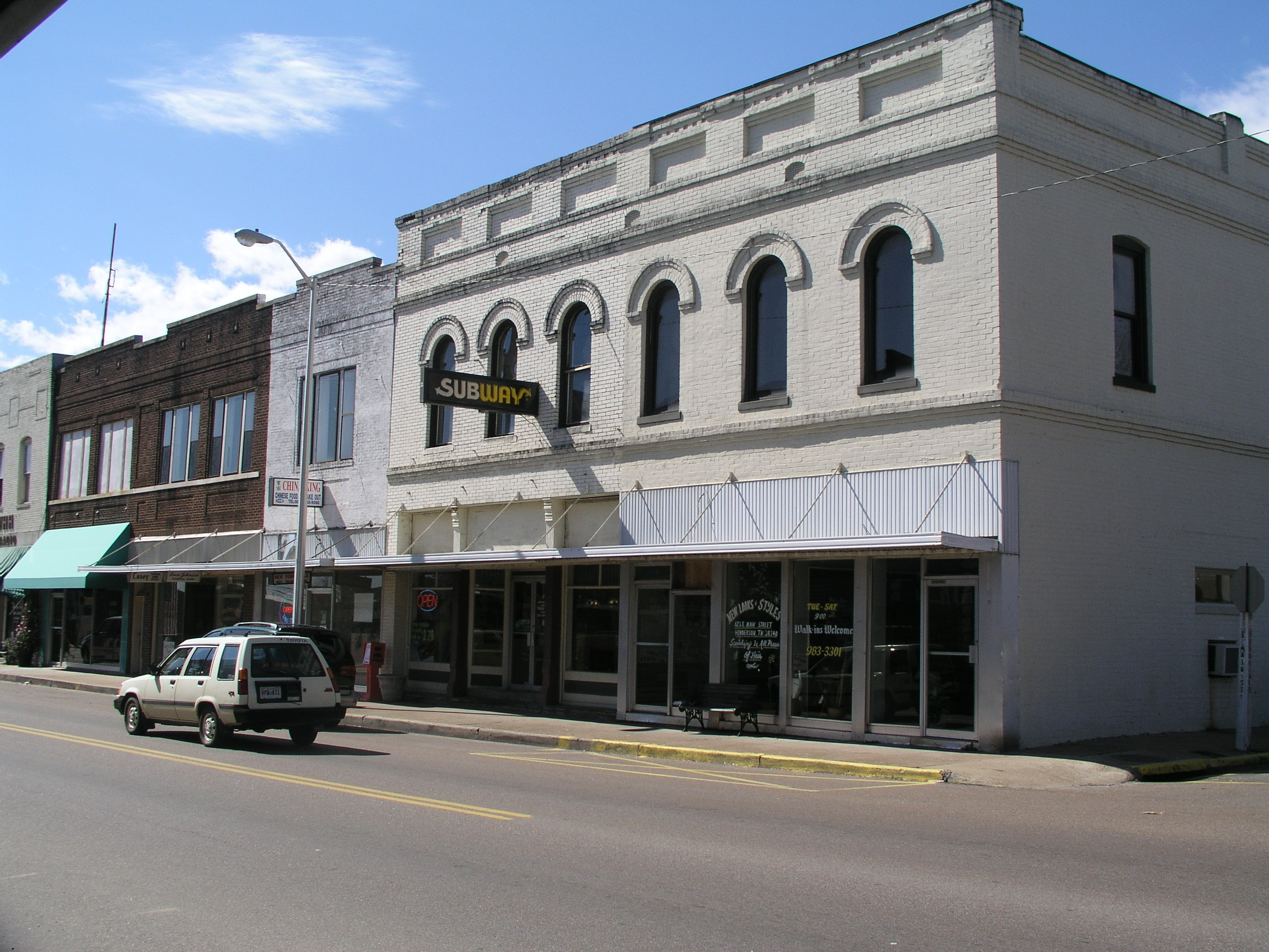 Downtown Henderson, Tennessee, United States